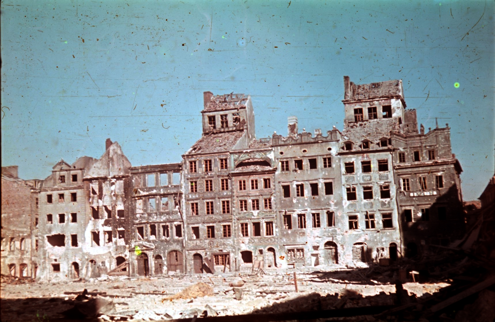 Warsaw Uprising in Poland dated August 1944. Old Town Market Place, Dekert's Side. Rare Agfacolor photo made during the fight of Poles against Germans. This photo was not colorized. Author Ewa Faryaszewska was corporal in Polish Home Army and shot 31 color photos during the Warsaw Uprising.